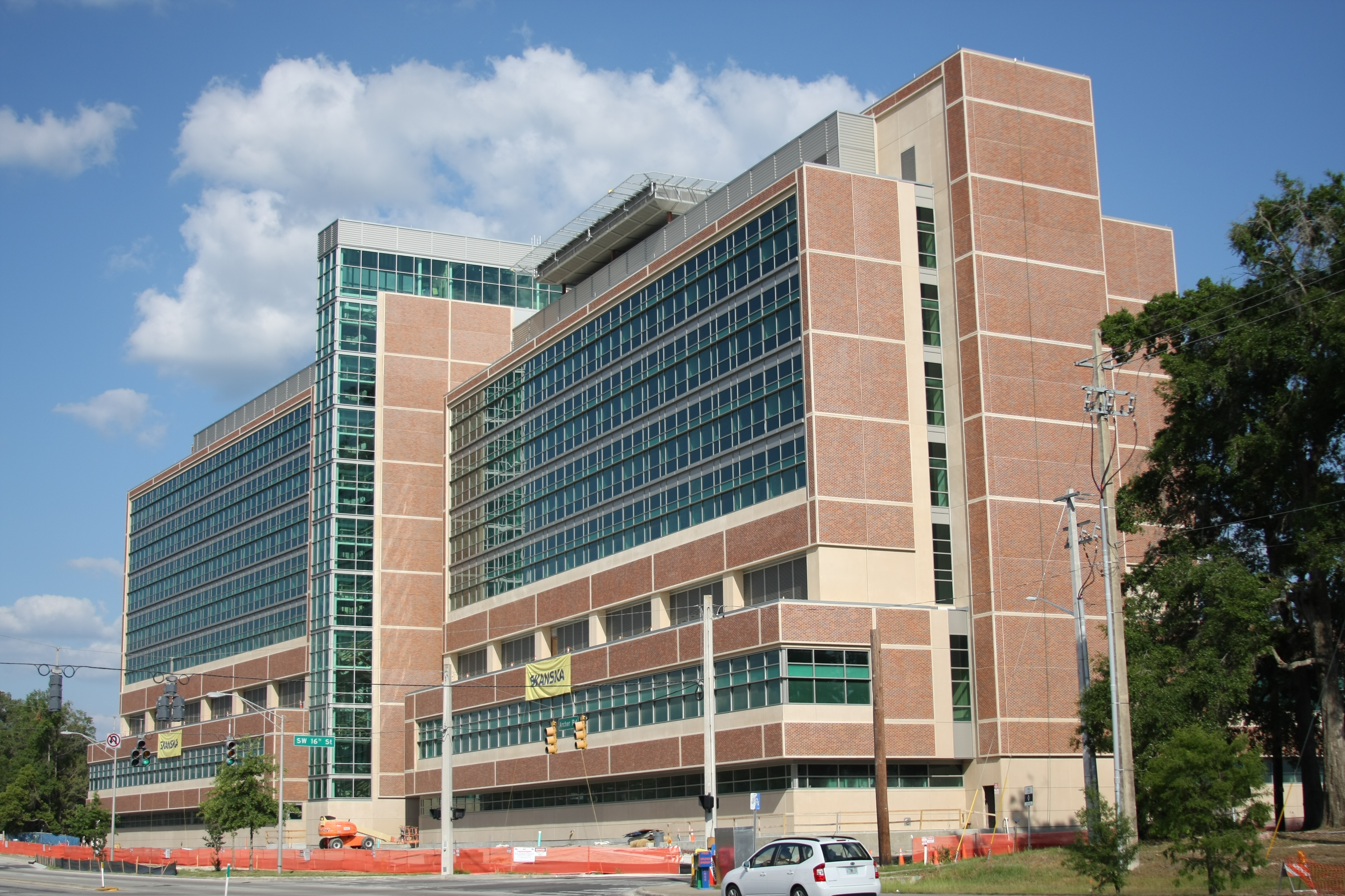 Cancer Hospital in final stages of construction at the University of Florida.